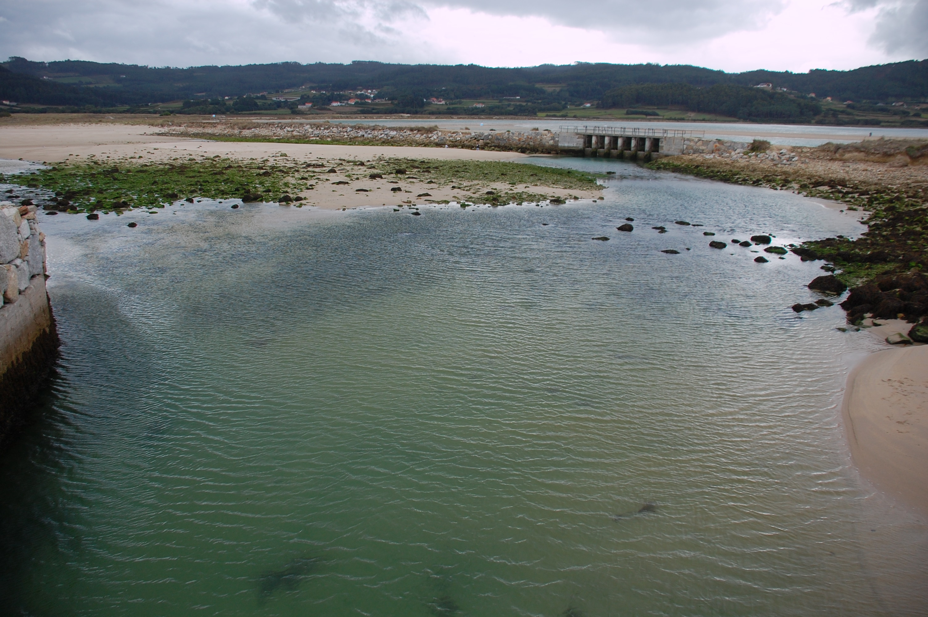 This is a photography of a Site of Community Importance in Spain with the ID: ES1110005. Natura2000 entry, EEA entry